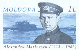 Stamp of Moldova showing Alexander Marinesko and soviet submarine of serie IX (included S-1, S-2 and S-3 only) at the background. Marinesko is well-known as a commander of S-13 submarine of serie IX-bis which sank german transport ships Wilhelm Gustloff and General Steuben.